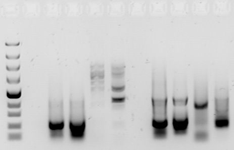 Several PCR products unspecifically amplified. 1% agarose gel ethidium bromide-stained.